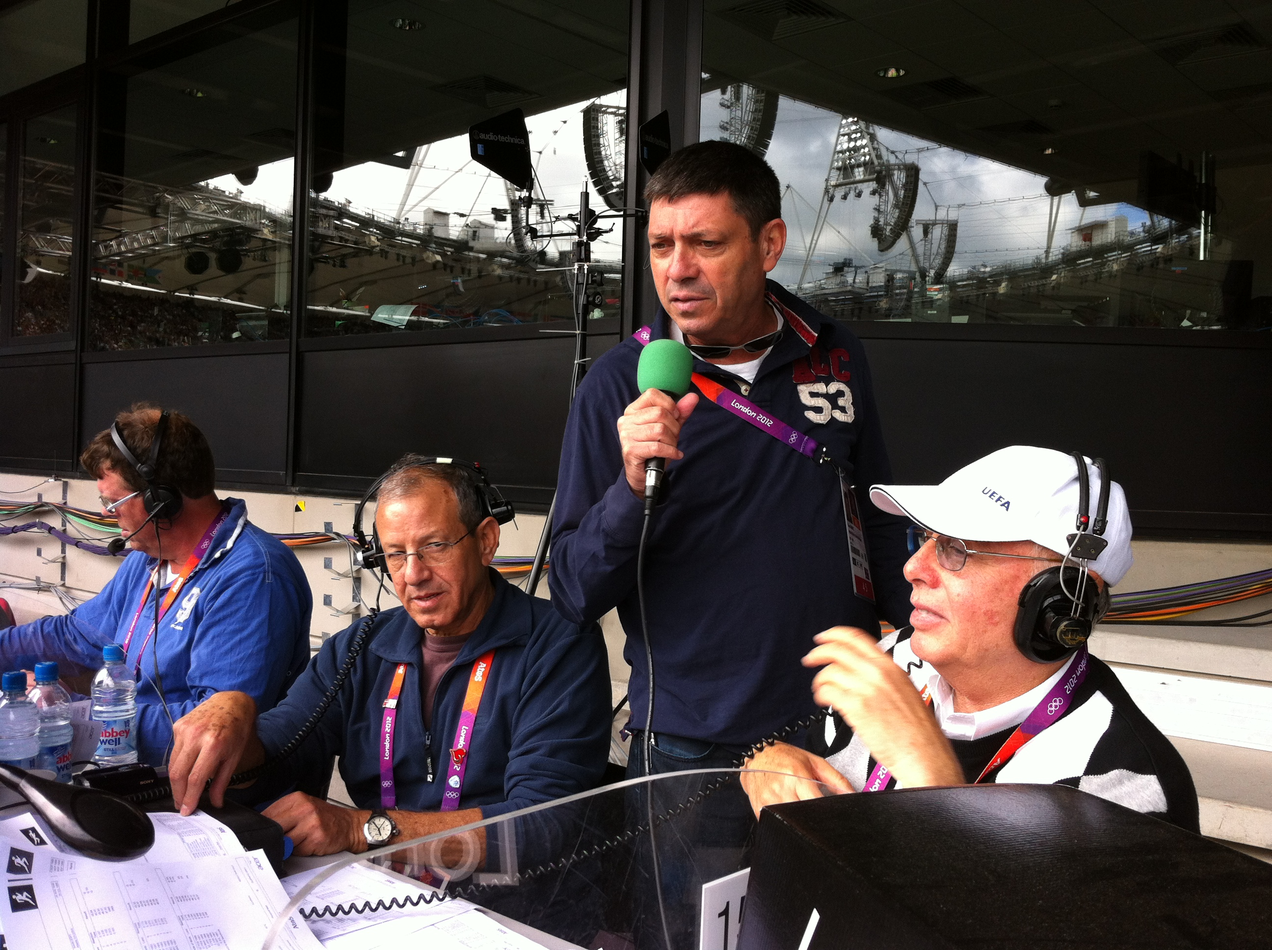 שידורי האולימפידה בלונדון